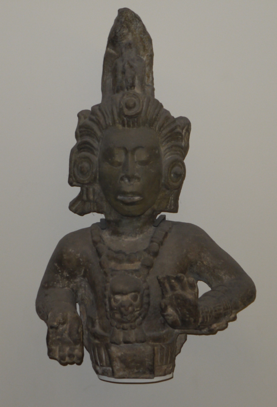 Photo of a cast of a Maya maize god statue in the british museum